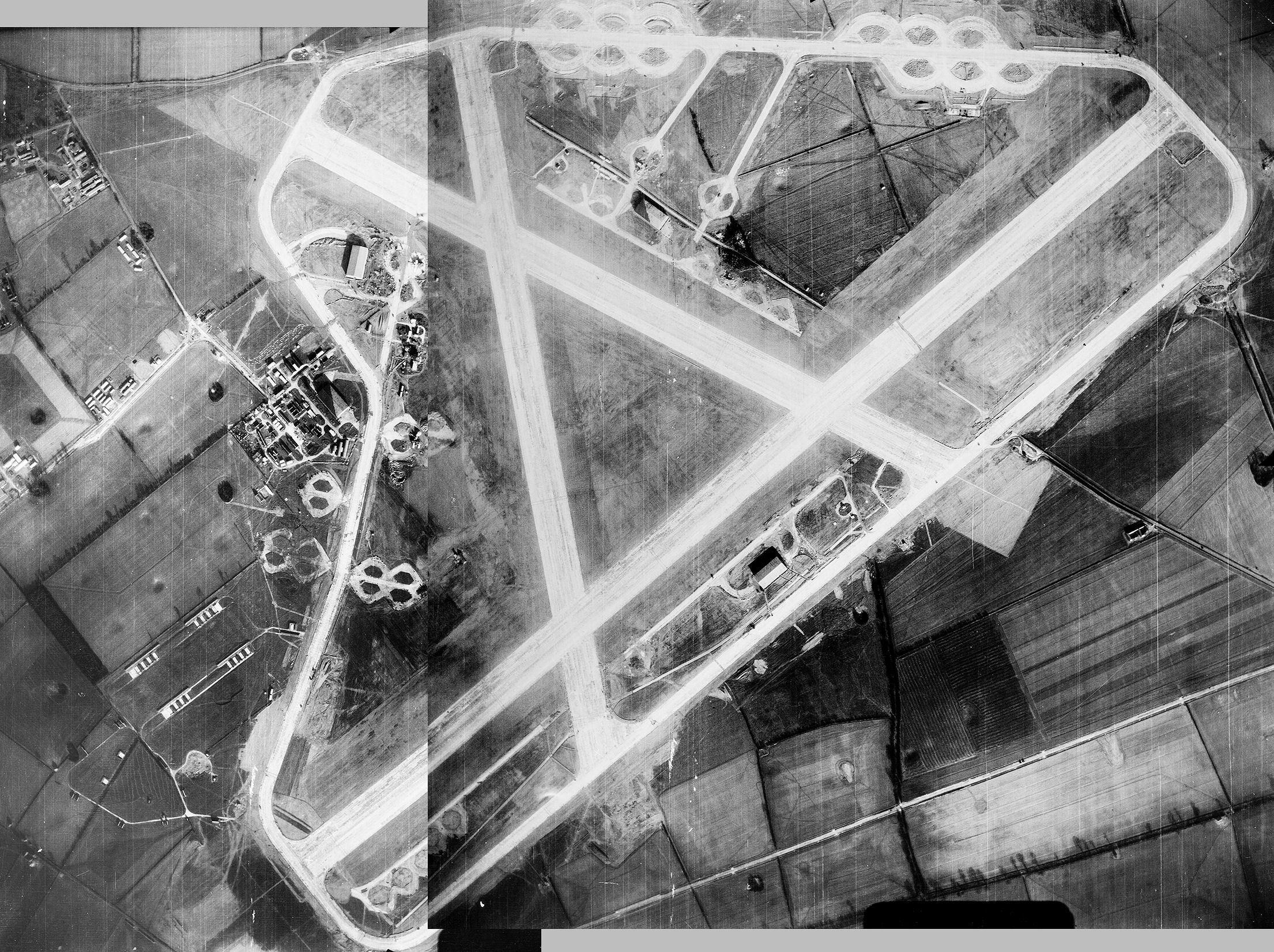 Aerial photograph of Sculthorpe airfield looking north, the main runway runs diagonally, the technical and bomb dump are on the left, 31 January 1946. Photograph taken by No. 90 Squadron, sortie number RAF/3G/TUD/UK/50. English Heritage (RAF Photography).